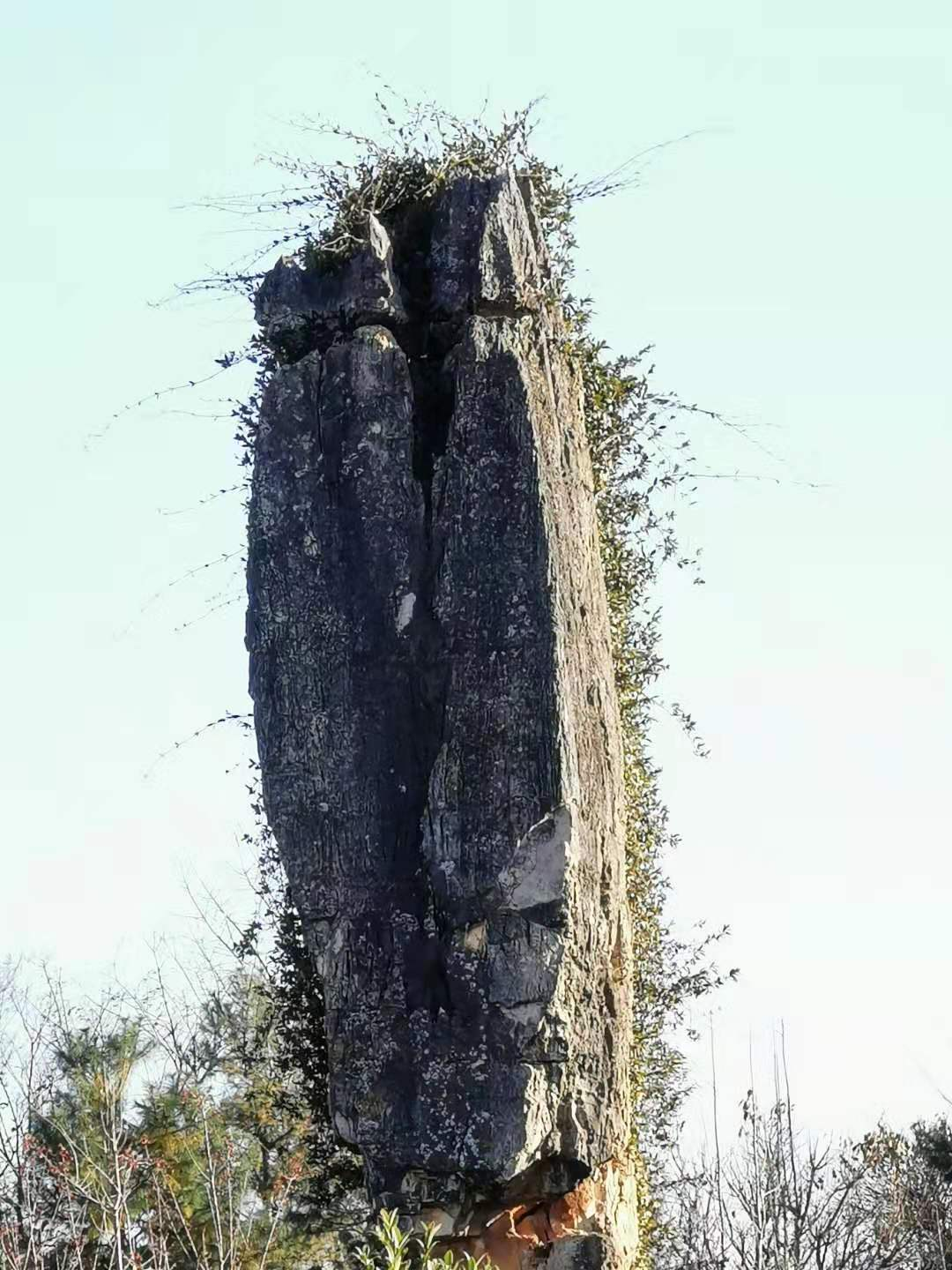 Ashma and Ahei, in Shilin, Yunnan Province, Chine.